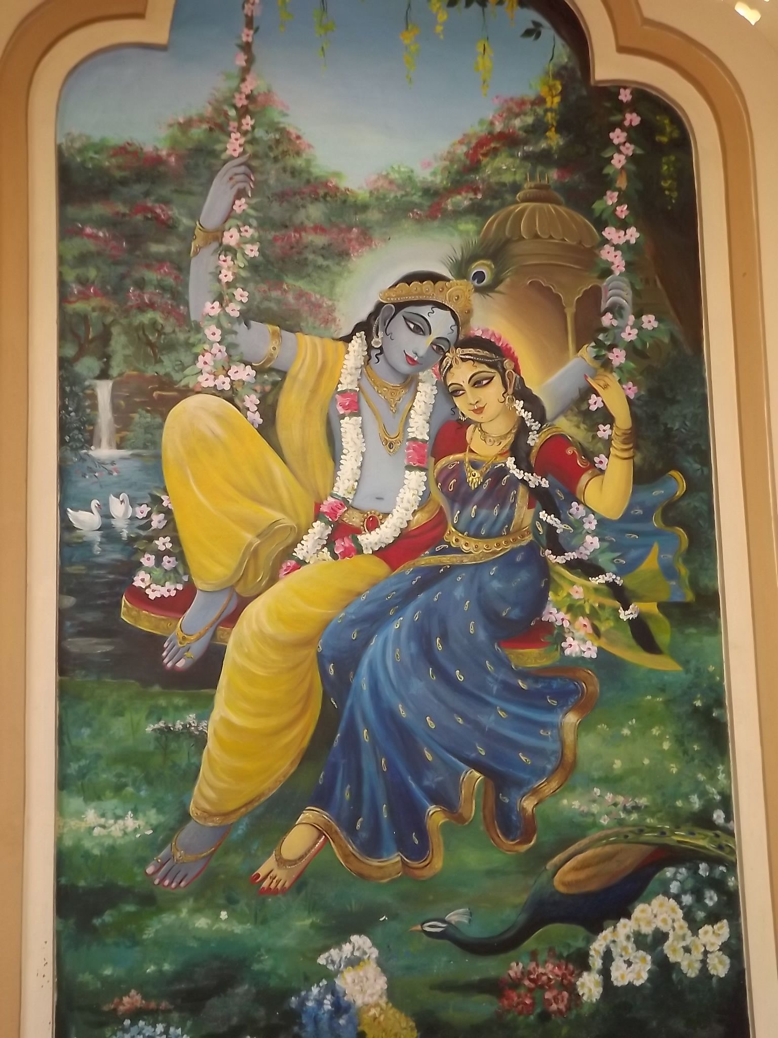 vrindavan